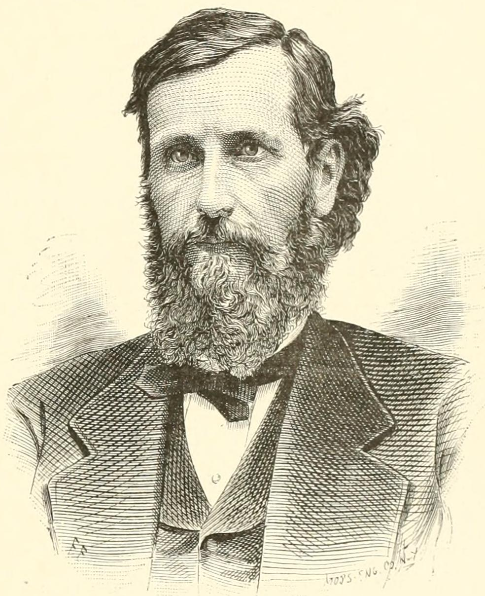 Isaac Stephenson, United States Senator and Congressman